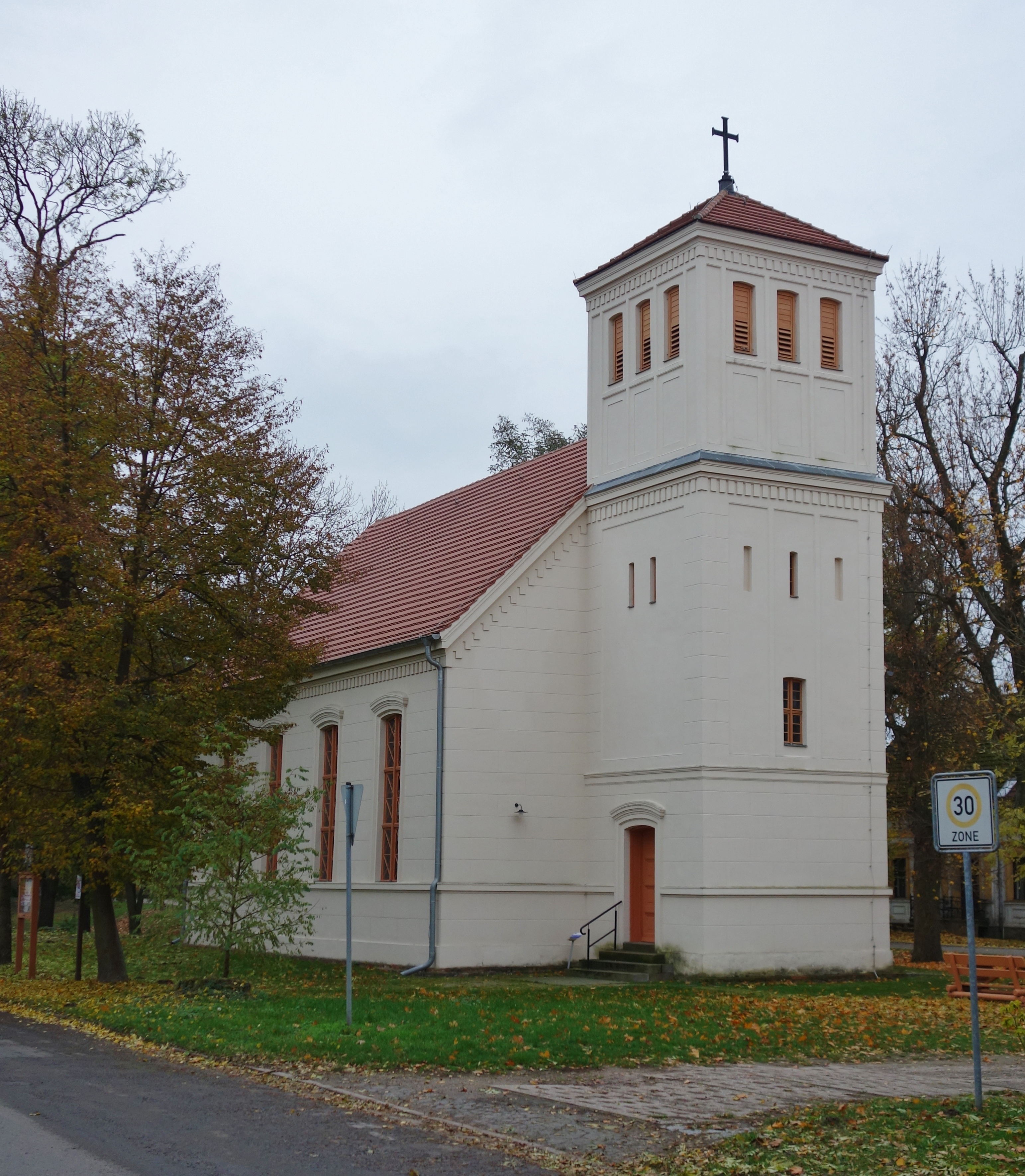 Northern view of church in Neulietzegöricke, Neulewin municipality, Märkisch-Oderland district, Brandenburg state, Germany